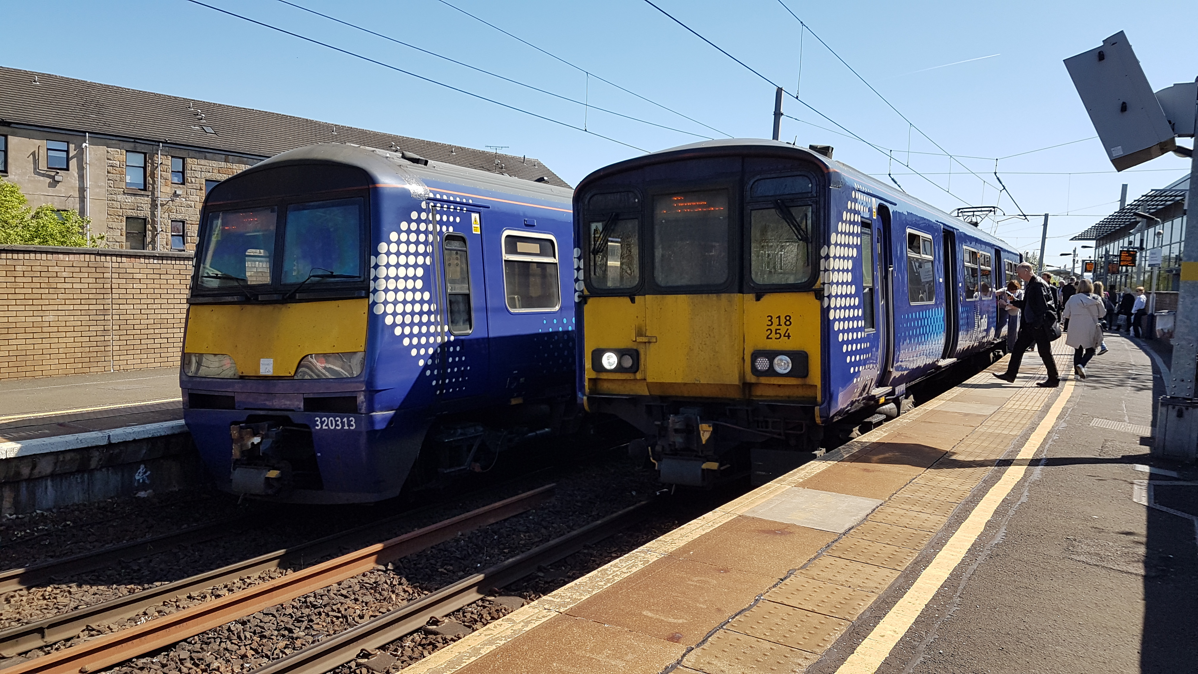 Class 320 and Class 318 stand at Partick platforms 1 and 2.